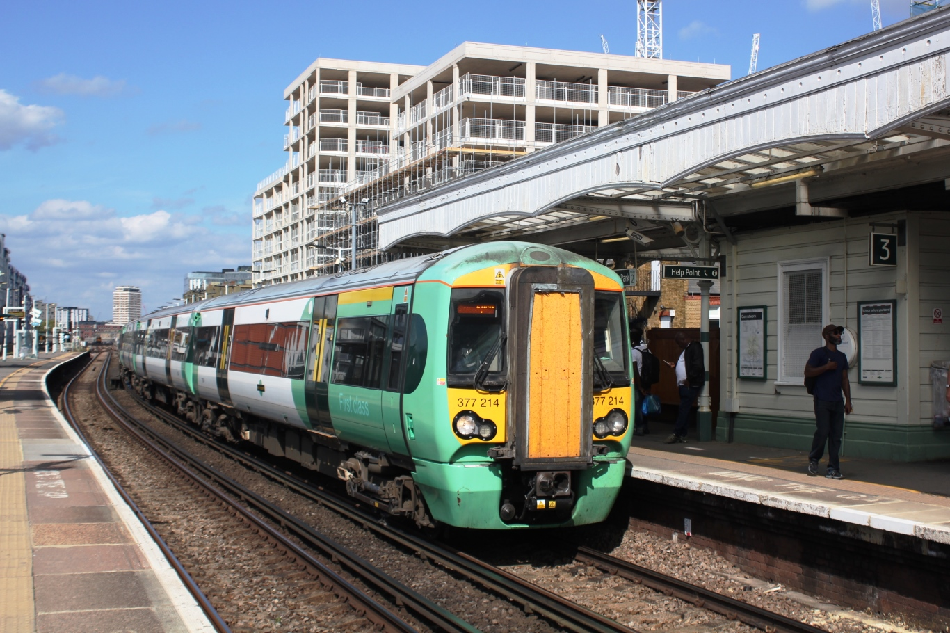 Southern 'Electrostar' 377214 calls at Battersea Park, the first stop on its suburban service out of London's Victoria station.